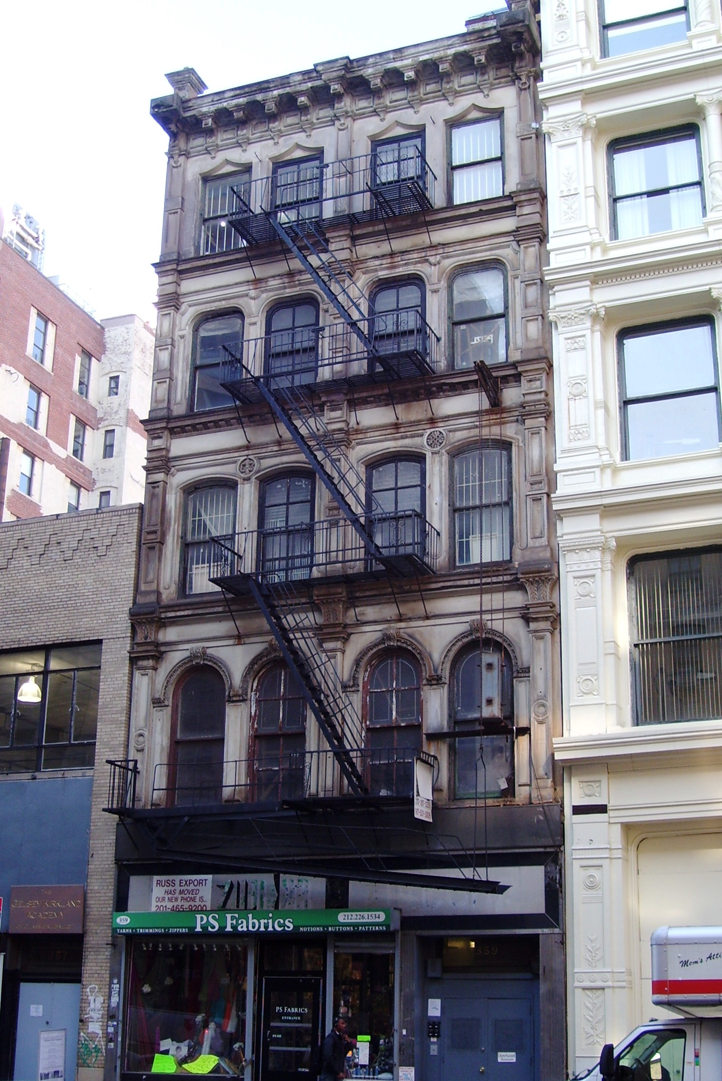 359 Broadway at the between Leonard and Franklin Streets in the Tribeca neighborhood of Manhattan, New York City was built in 1852 and was designed by the firm of Field & Correja in the Italianate style. The top three floors of the building was used by pioneering photographer Matthew Brady as a portrait studio from 1853 to 1859. The building was designated a NYC landmark in 1990.